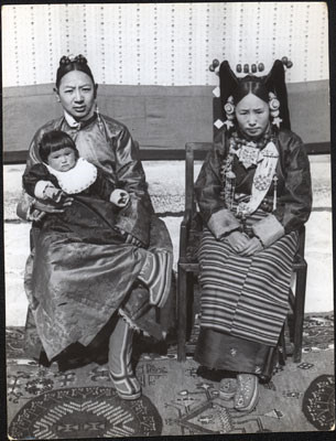 Yapshi Langdun with wife and daughter